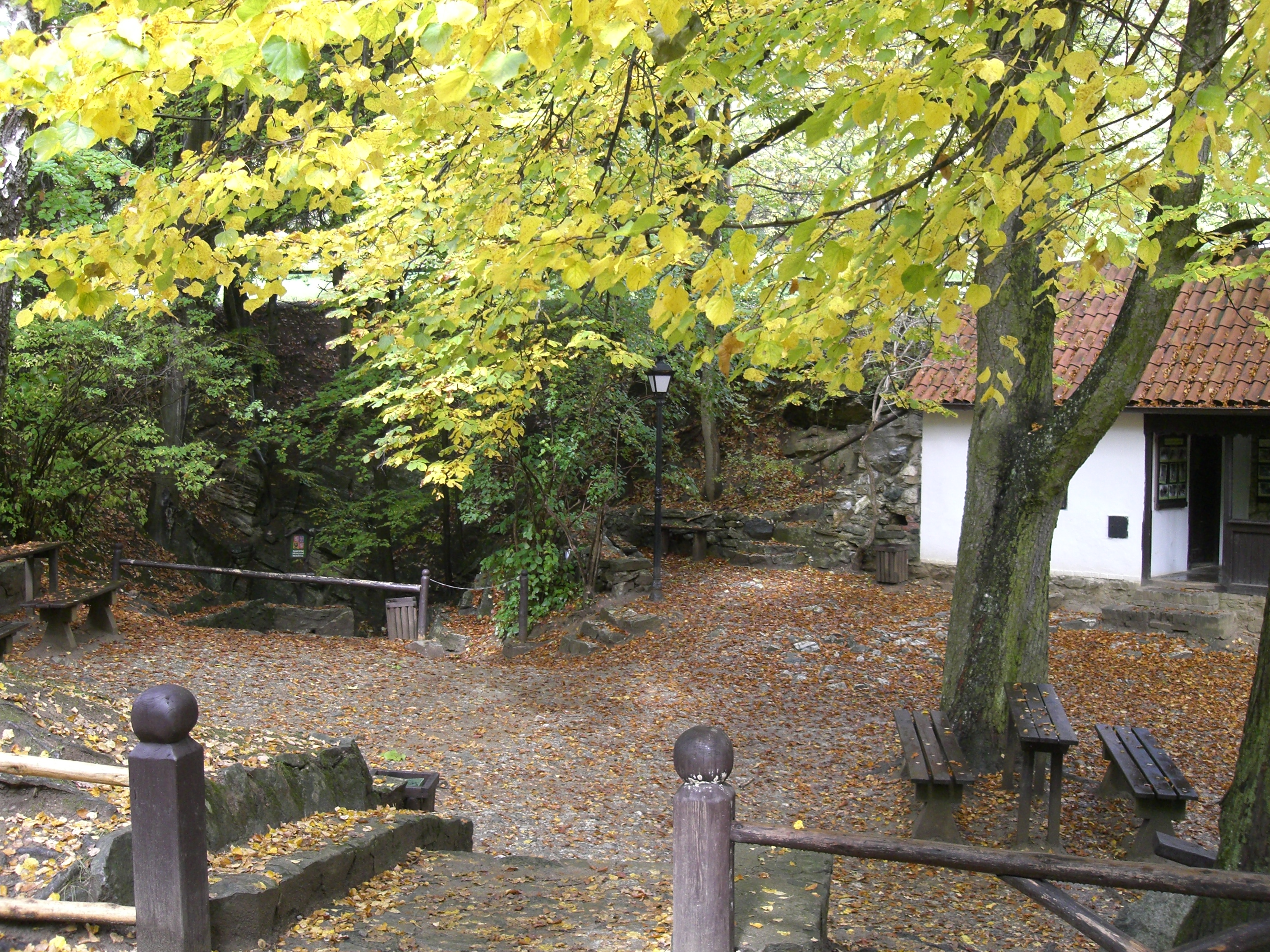 Chýnov's cave near Chýnov village, Czech Republic 49°25′48.39″N 14°49′58.07″E / 49.4301083°N 14.8327972°E